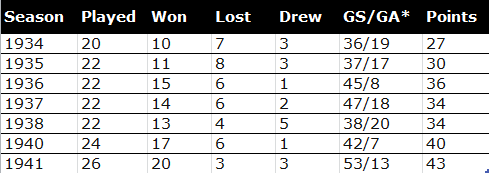 CFL League Table of MSC